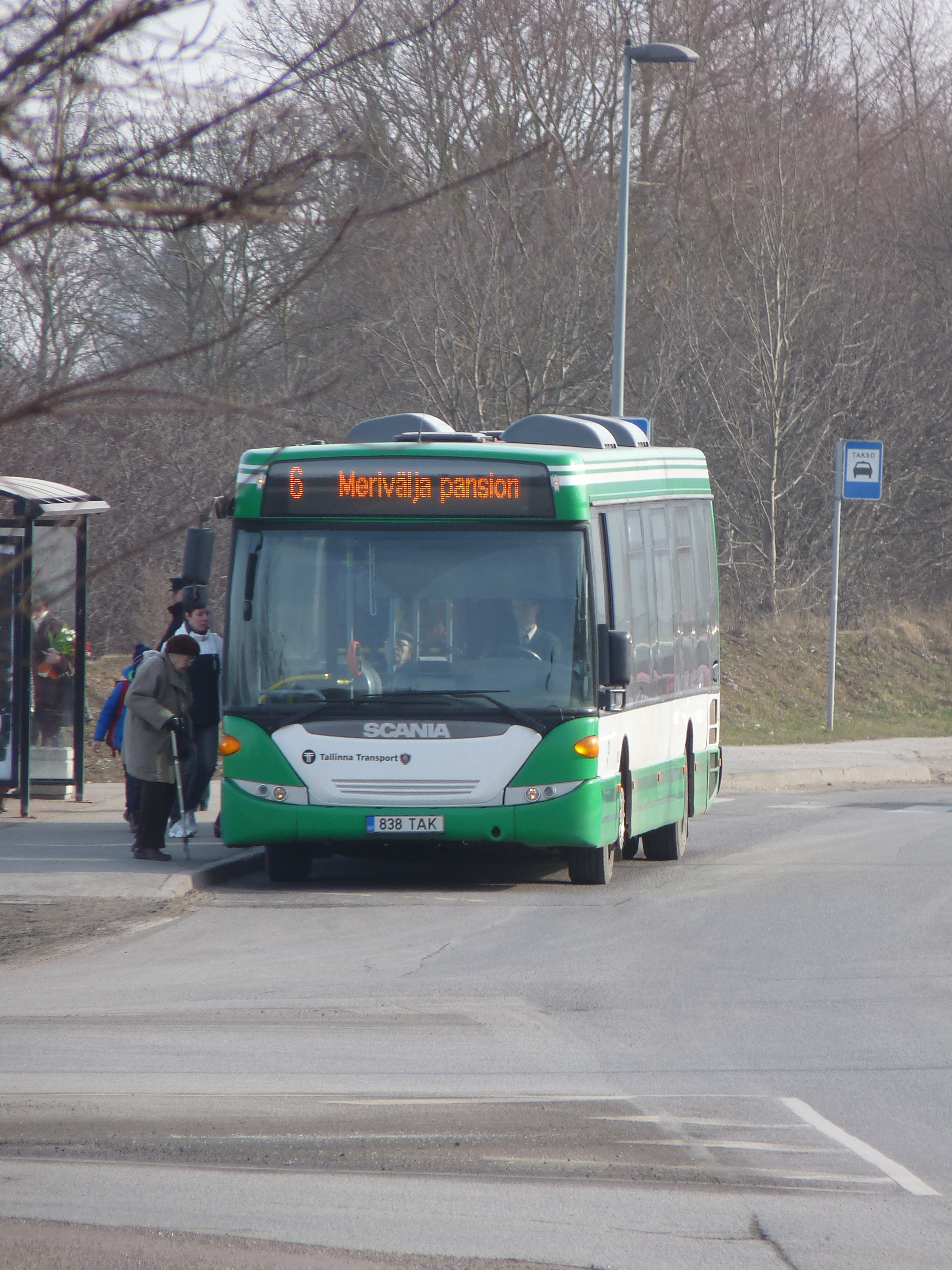 Scania public bus in Tallinn, Estonia